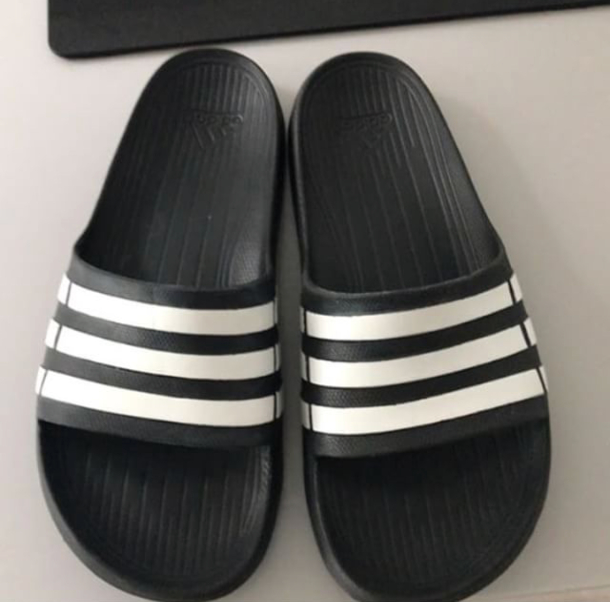 A pair of Boys/Mens Adidas Sliders